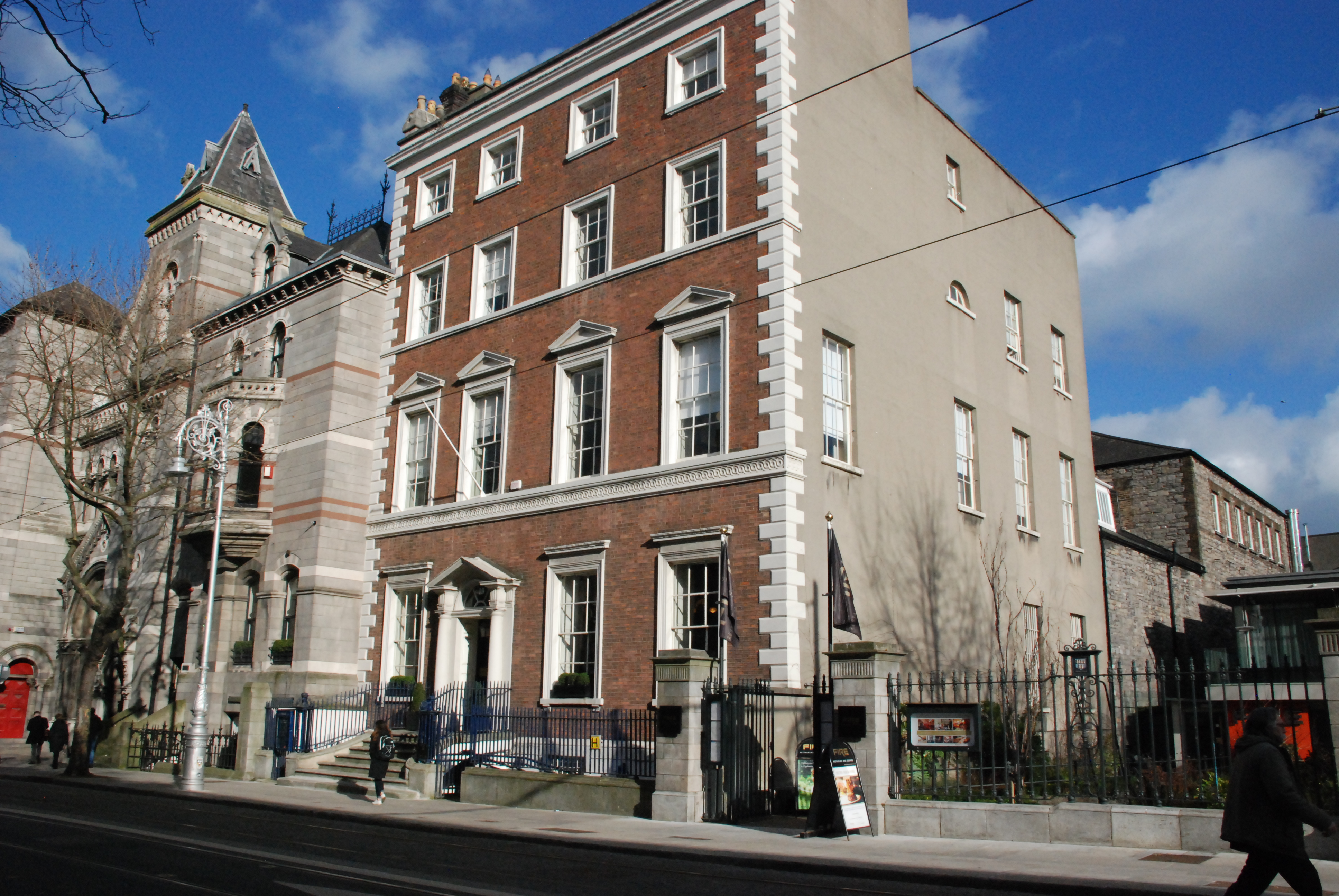 Academy House is the location of the Royal Irish Academy